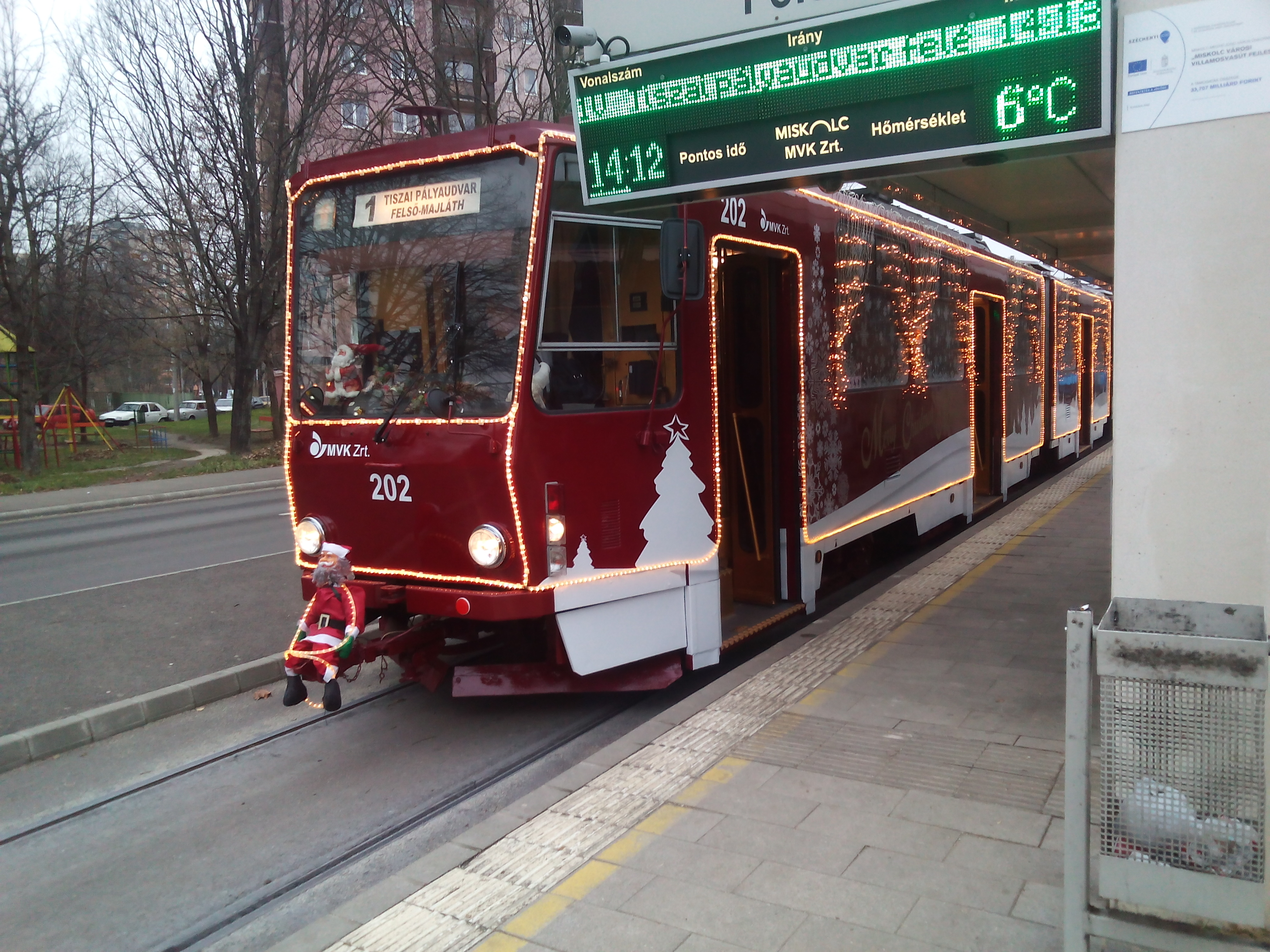 Christmas tram in Miskolc, at Felső-Majláth stop, on 8th December 2015. (